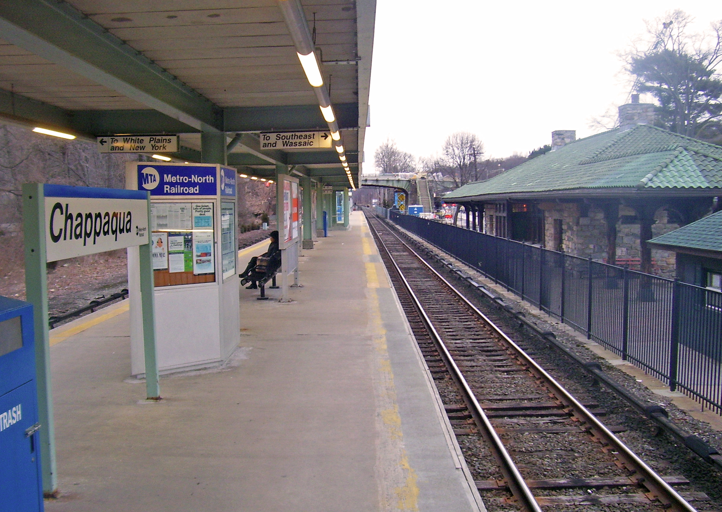 View north along Metro-North Harlem Line from station in Chappaqua, NY, USA